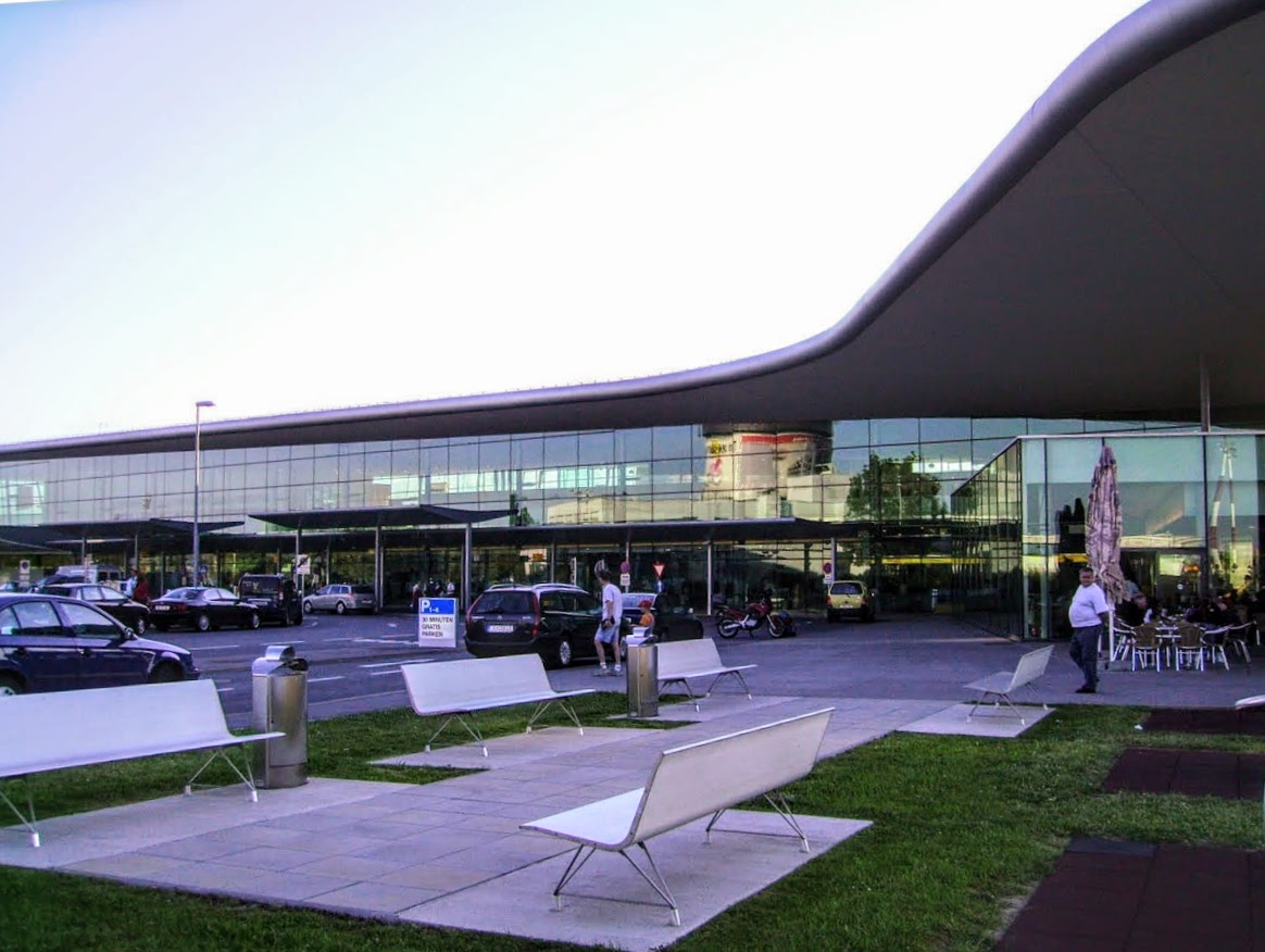 Airport of Graz